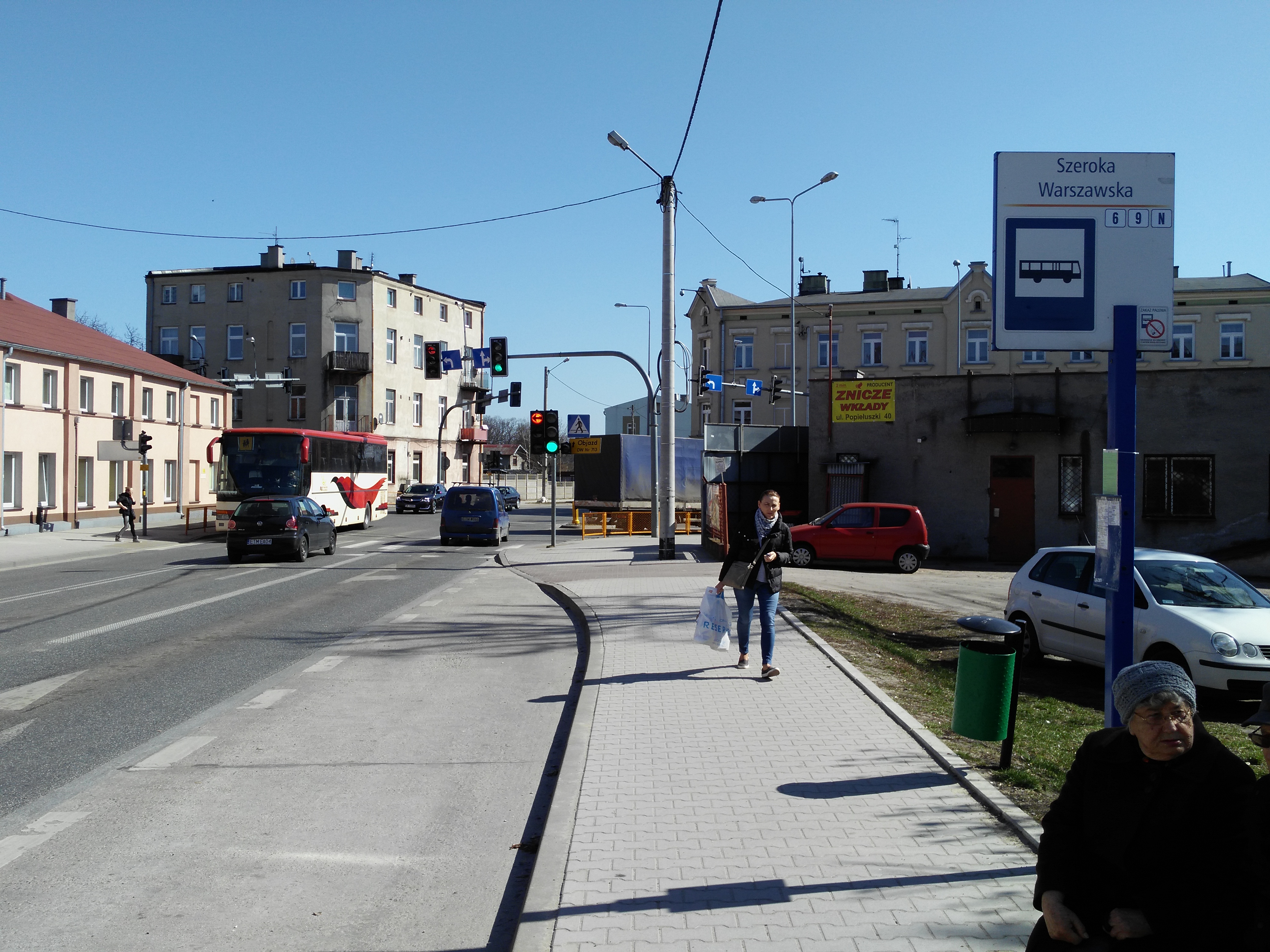 Przystanek MZK Szeroka Warszawska